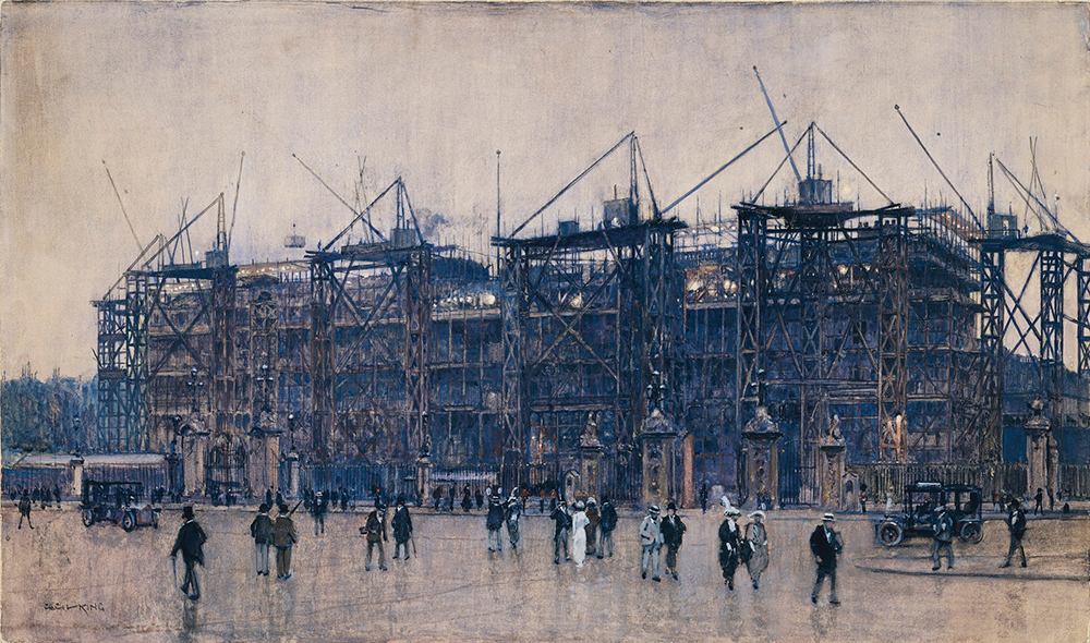 A painting of the construction work taking place on the east front of Buckingham Palace in 1913.